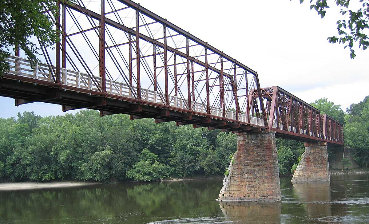 This New York, New Hampshire, Hartford rail bridge over the Connecticut River will see better days as it is being refurbished to carry a rail trail. This bridge is now generally known as the Canalside Rail Trail Bridge.